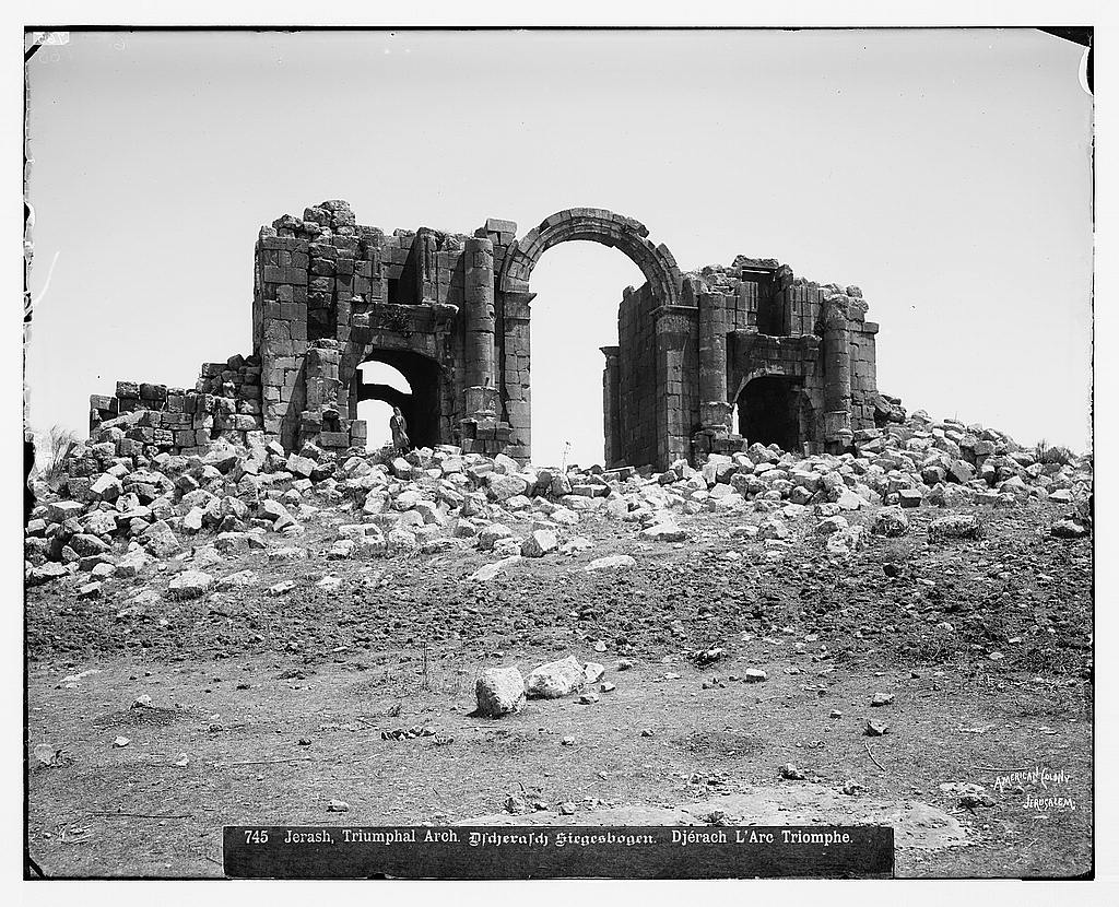 The Triumphal Arch (Hadrian's Arch) in the south of the Roman city of Gerasa (now Jerash) in Jordan. The tripartite triumphal arch was erected in commemoration of emperor Hadrian's visit to the city in 129/130 AD. The building is 25 m wide and ca. 21.5 m high. The main entrance is 6 m wide and 11 m high, while the side entrances are 2.5 m wide and 5 m high. The upper part above the peak of the main arch has been practically completely restored by the Department of Antiquities of Jordan by reusing the ancient ashlar around the arch (Source: Franz Rainer Scheck: Jordanien. Völker und Kulturen zwischen Jordan und Rotem Meer, DuMont Kunstreiseführer, Köln 1997, ISBN 3-7701-3979-8, p.163f.).